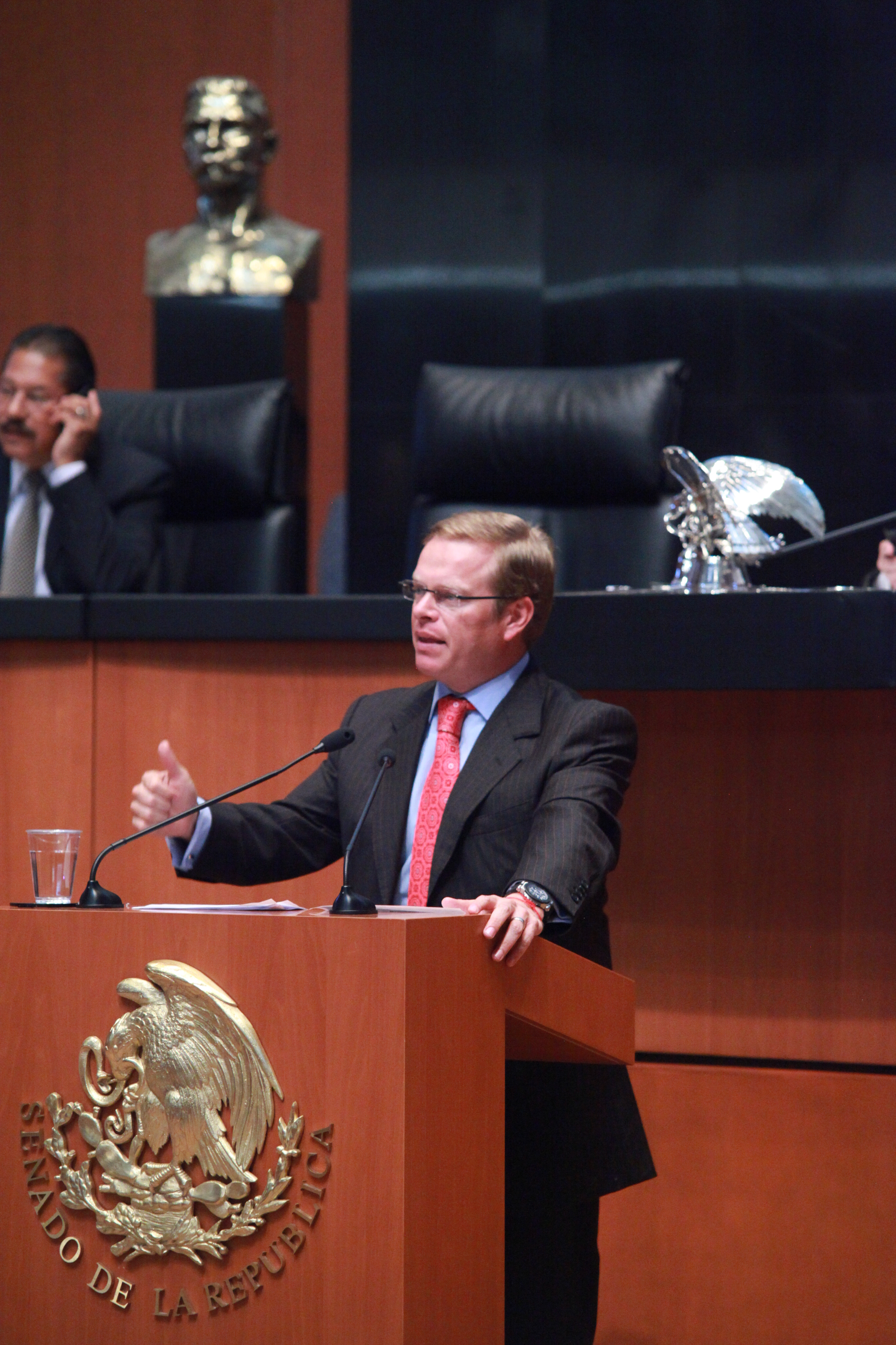 Arturo Escobar y Vega, en tribuna